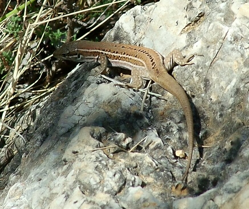 Podarcis melisellensis from the Island of Vis